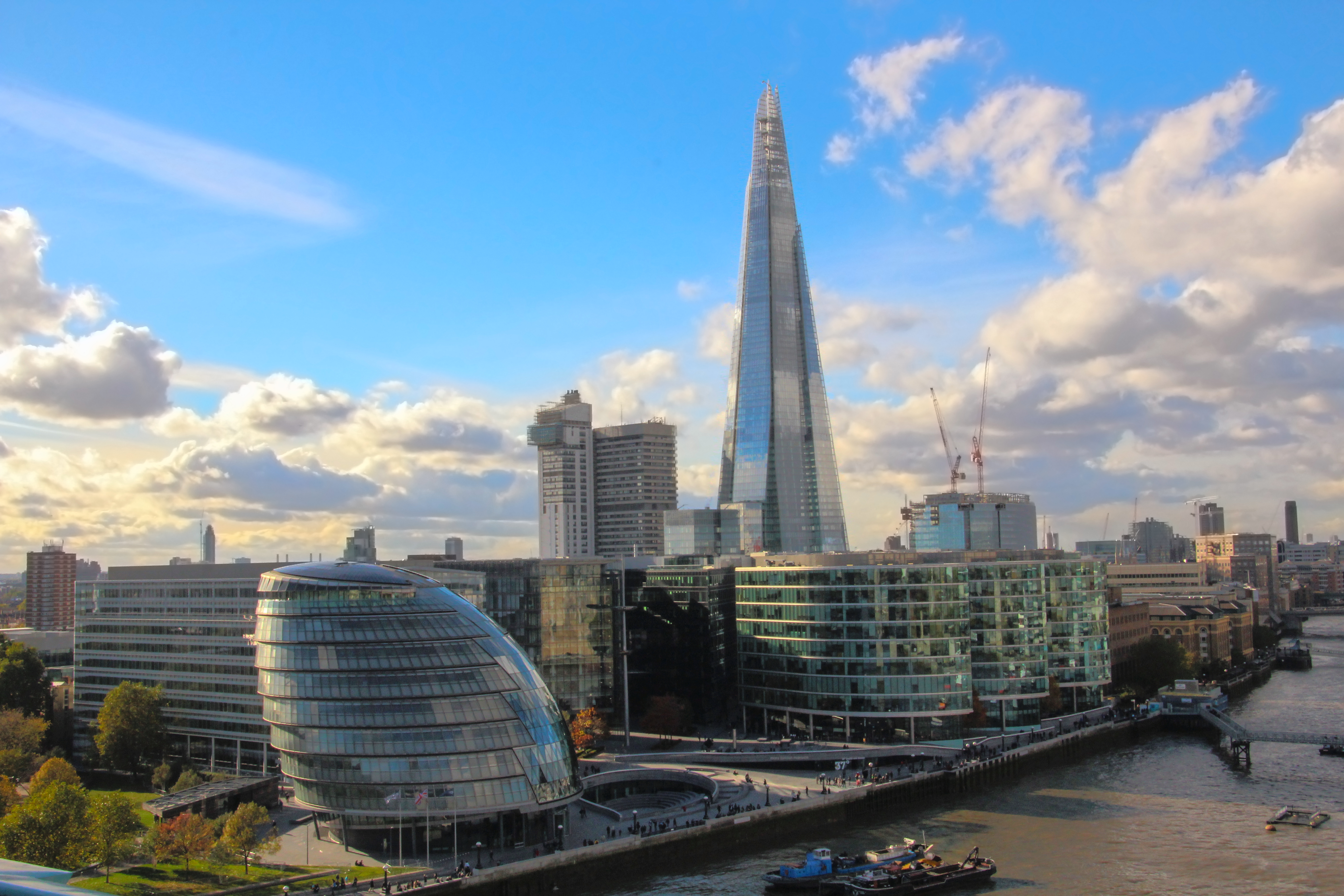 View of the quarter in which The Shard is situated in November 2012.